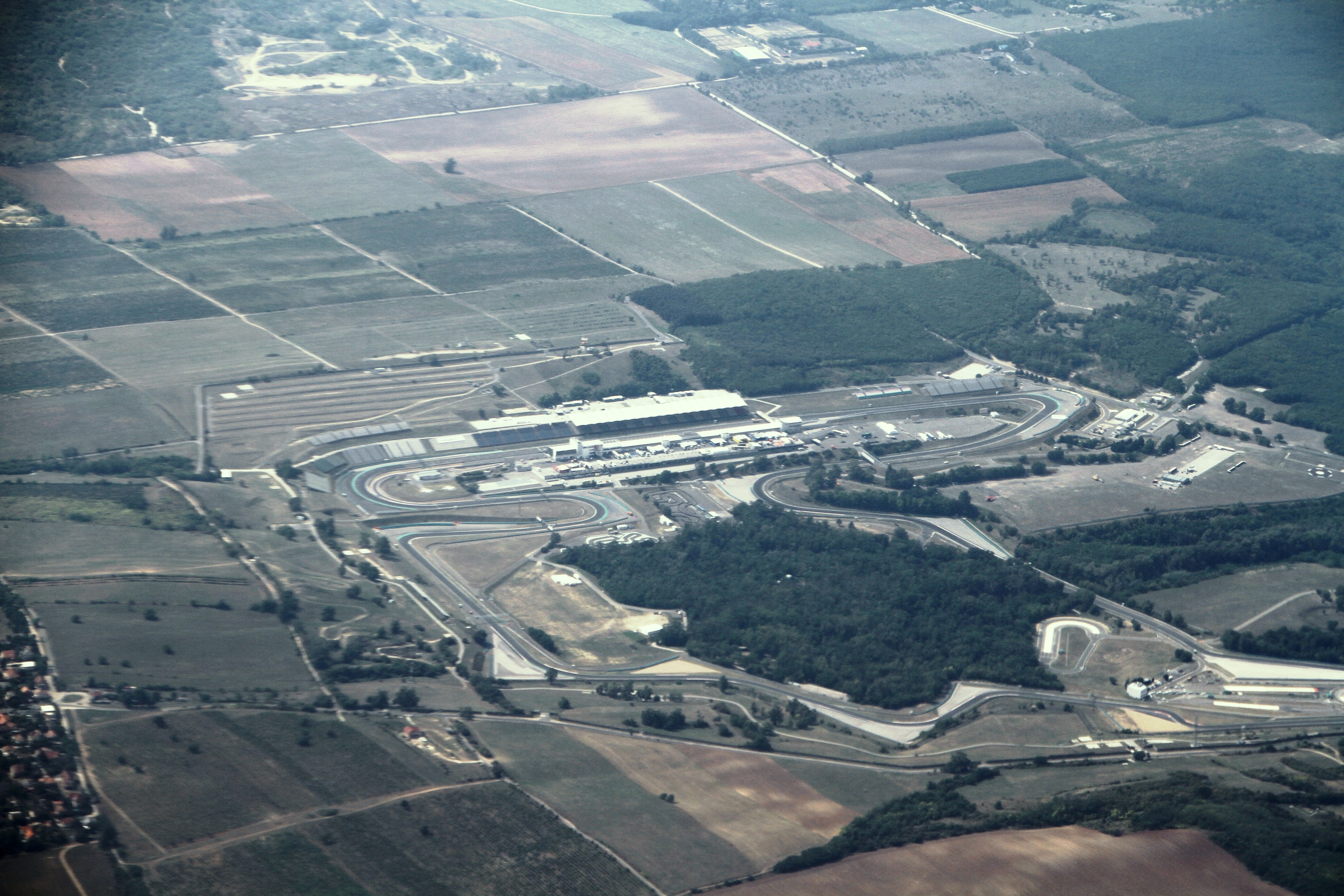 Aerial view over part of the Mogyoród town and municipality, Pest county, Hungary. Visible is the Hungaroring Formula-1 race track